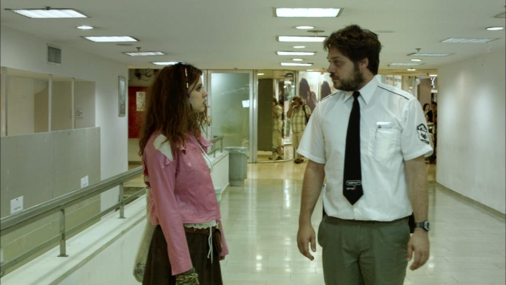 Ohad Knoller and Efrat Ben Yaacov